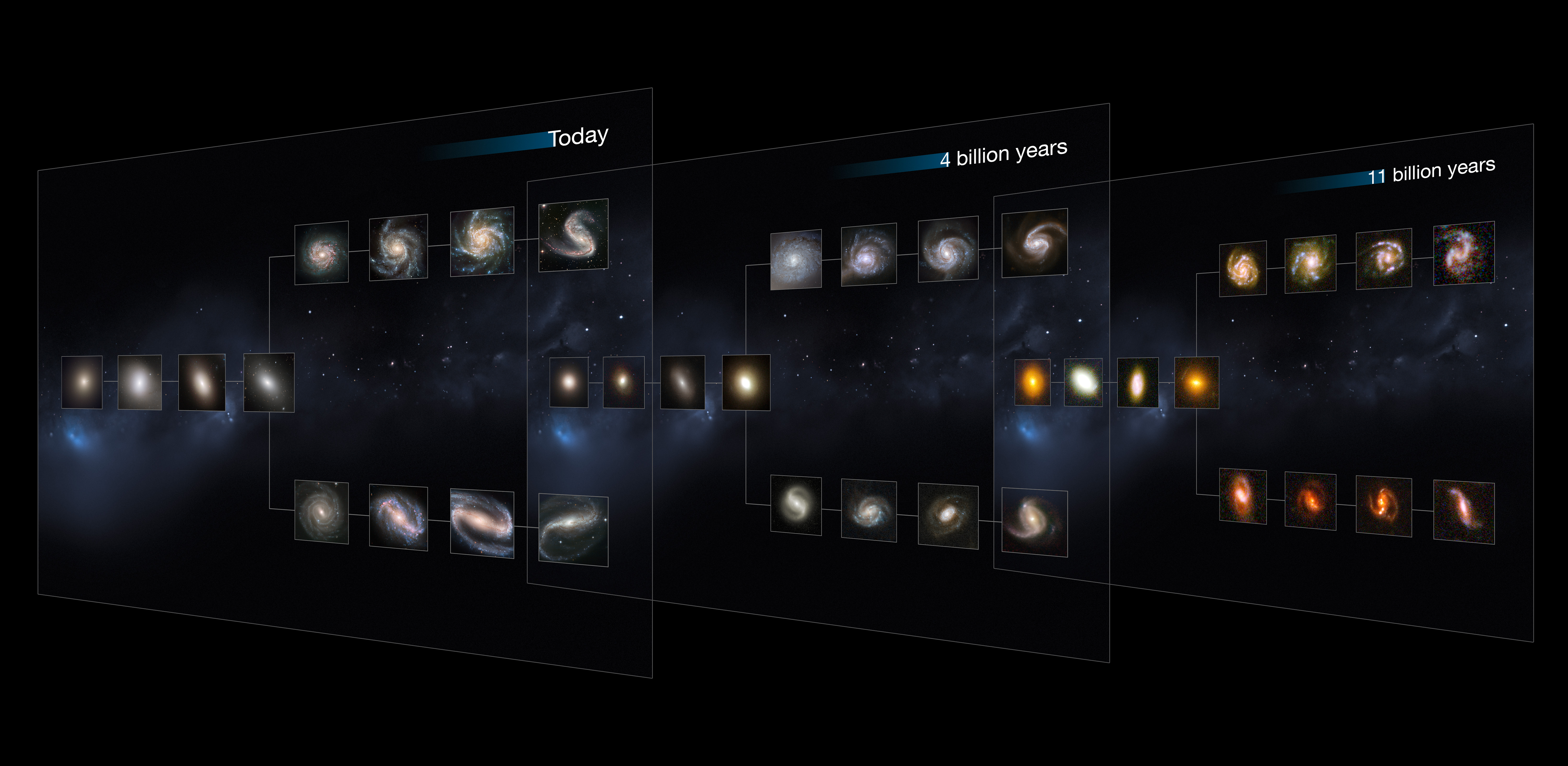 This image shows "slices" of the Universe at different times throughout its history (present day, and at 4 and 11 billion years ago). Each slice goes further back in time, showing how galaxies of each type appear. The shape is that of the Hubble tuning fork diagram, which describes and separates galaxies according to their morphology into spiral (S), elliptical (E), and lenticular (S0) galaxies. On the left of this diagram are the ellipticals, with lenticulars in the middle, and the spirals branching out on the right side. The spirals on the bottom branch have bars cutting through their centres. The present-day Universe shows big, fully formed and intricate galaxy shapes. As we go further back in time, they become smaller and less mature, as these galaxies are still in the process of forming. This image is illustrative. the Hubble images of nearby and distant galaxies used were selected based on their appearance; their individual distances are only approximate.